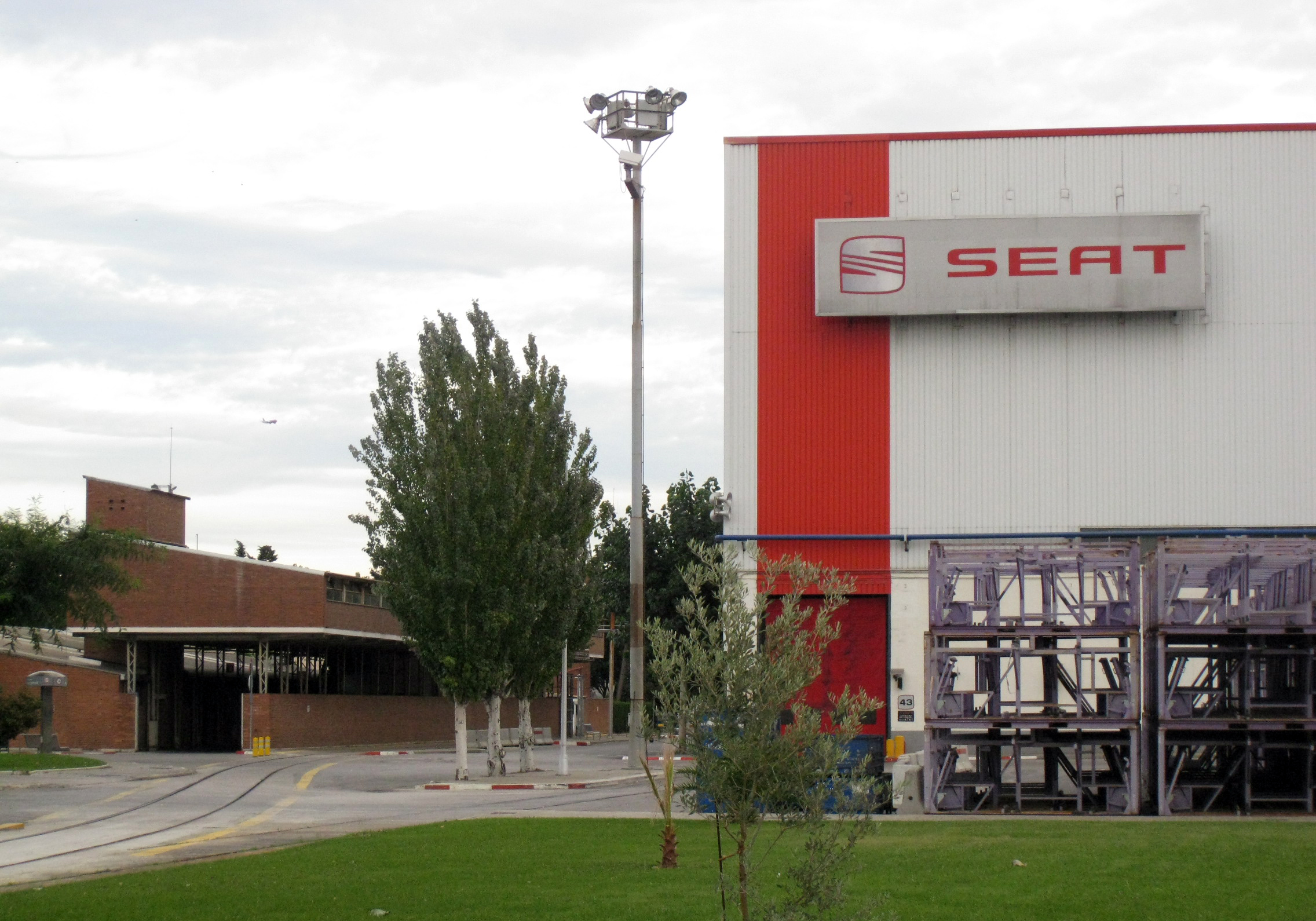 Canteen of the Seat Factory in Barcelona